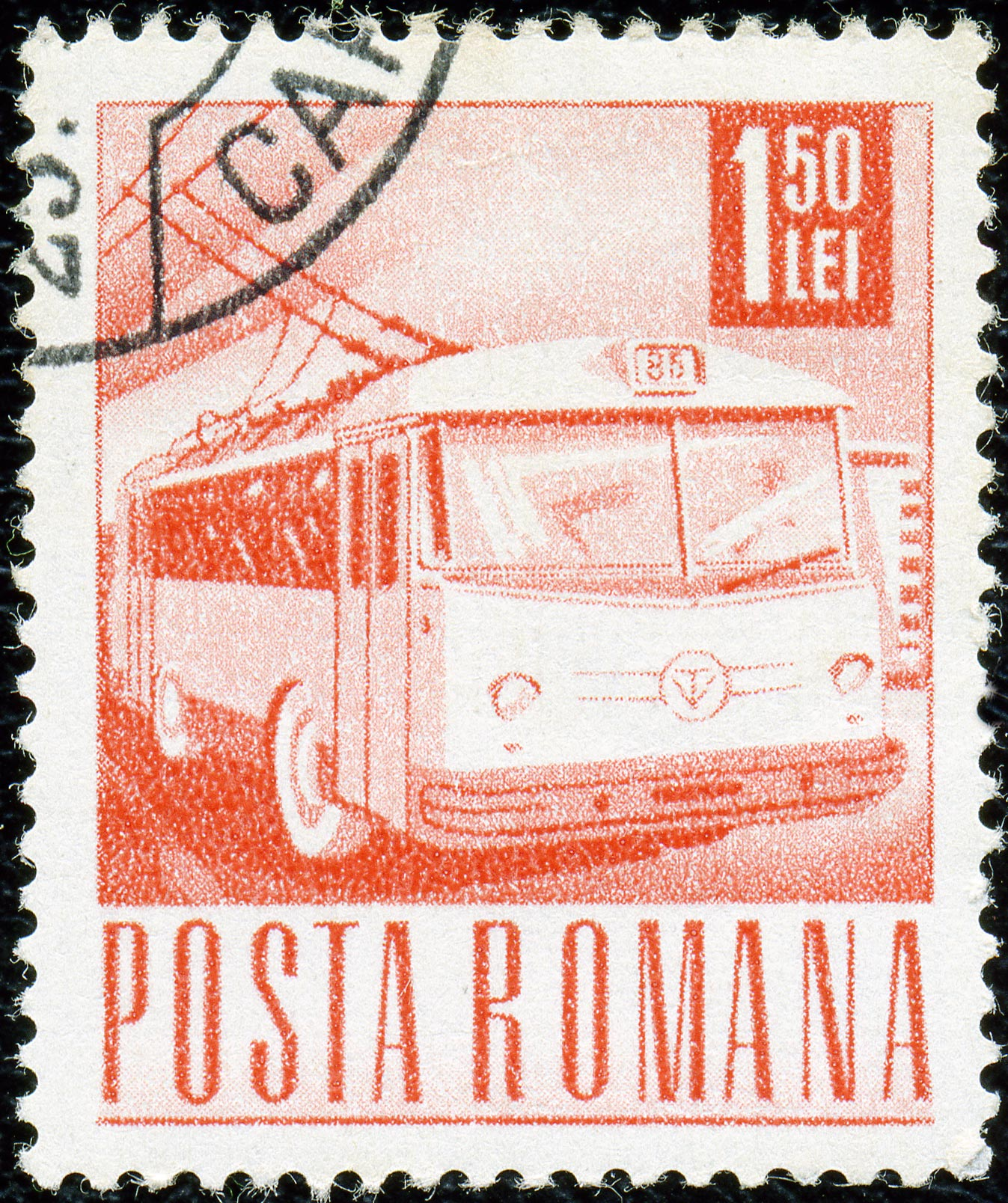 Stamp of Romania. Posta Romana; Design: J. Druga